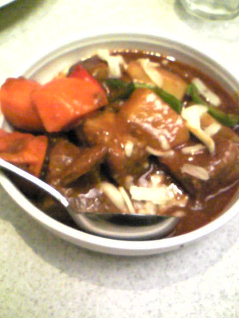 Kaldereta Tagalog: Kaldereta